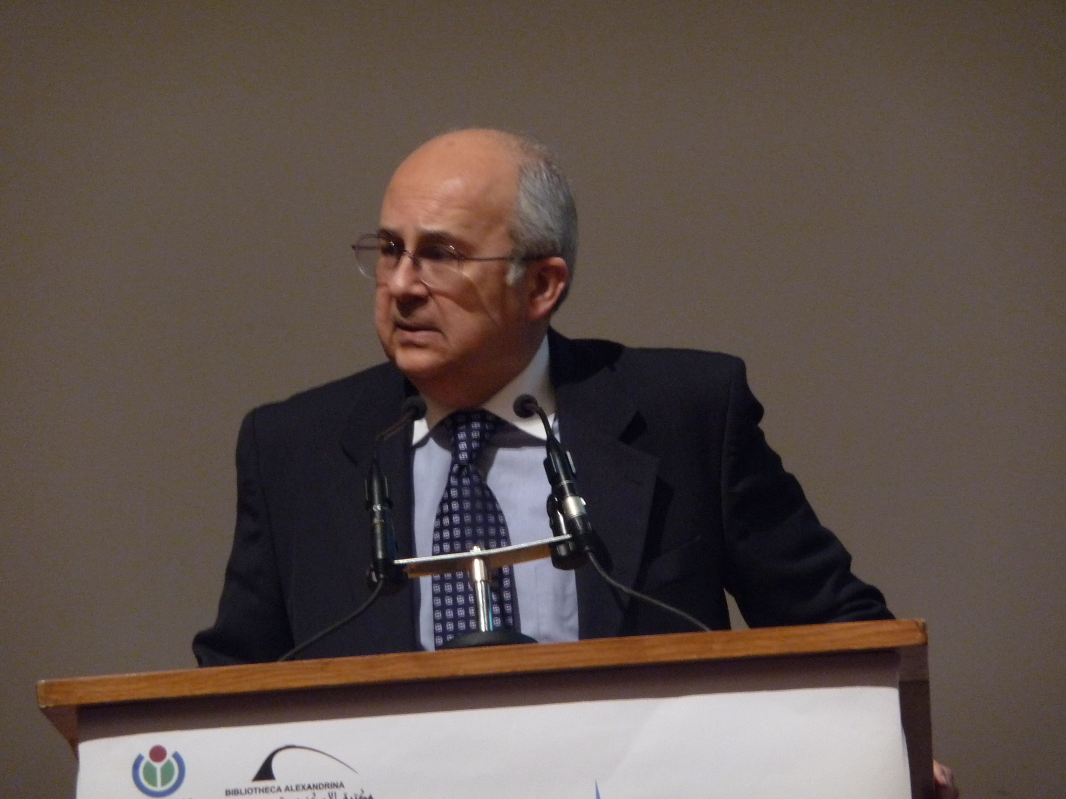 Bibliotheca Alexandrina director Ismail Serageldin speaking at closing ceremony of Wikimania 2008.